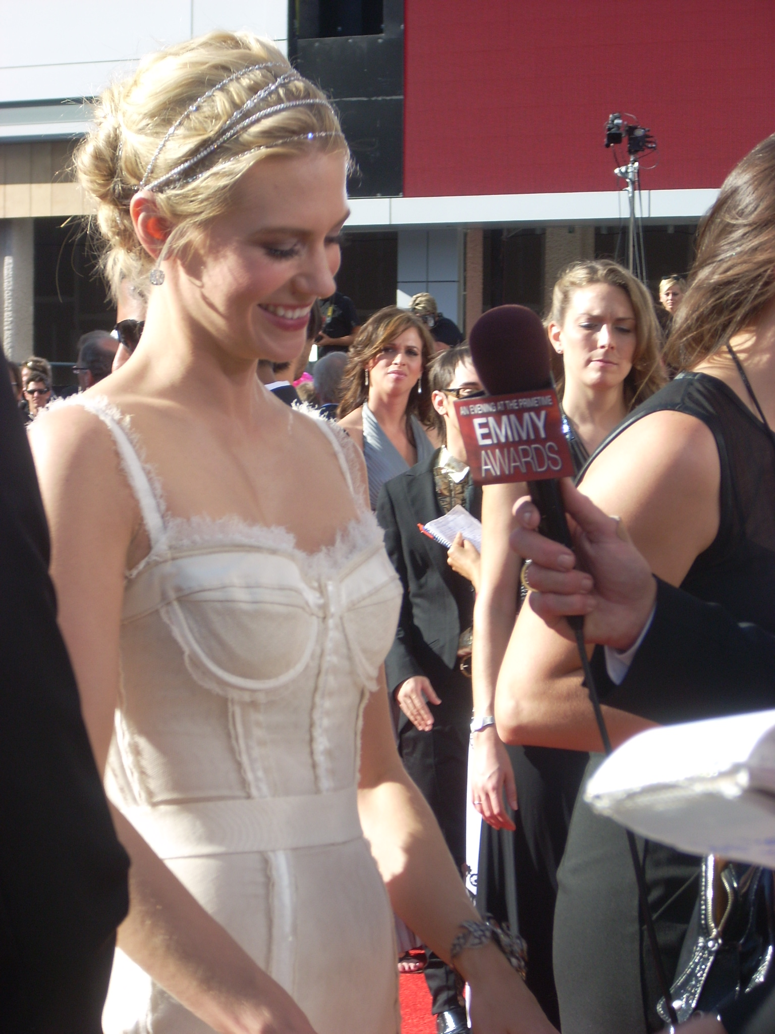 60th Annual Emmy Awards, Nokia Theater, Sept. 21, 2008